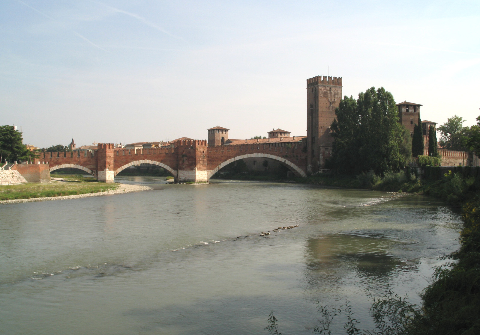 Castle Castelvechio and Ponte Scaligeri, located in the town of Verona/Italy